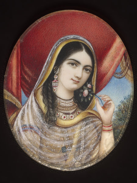 This painting depicts a lady in brown and white against a red curtain.